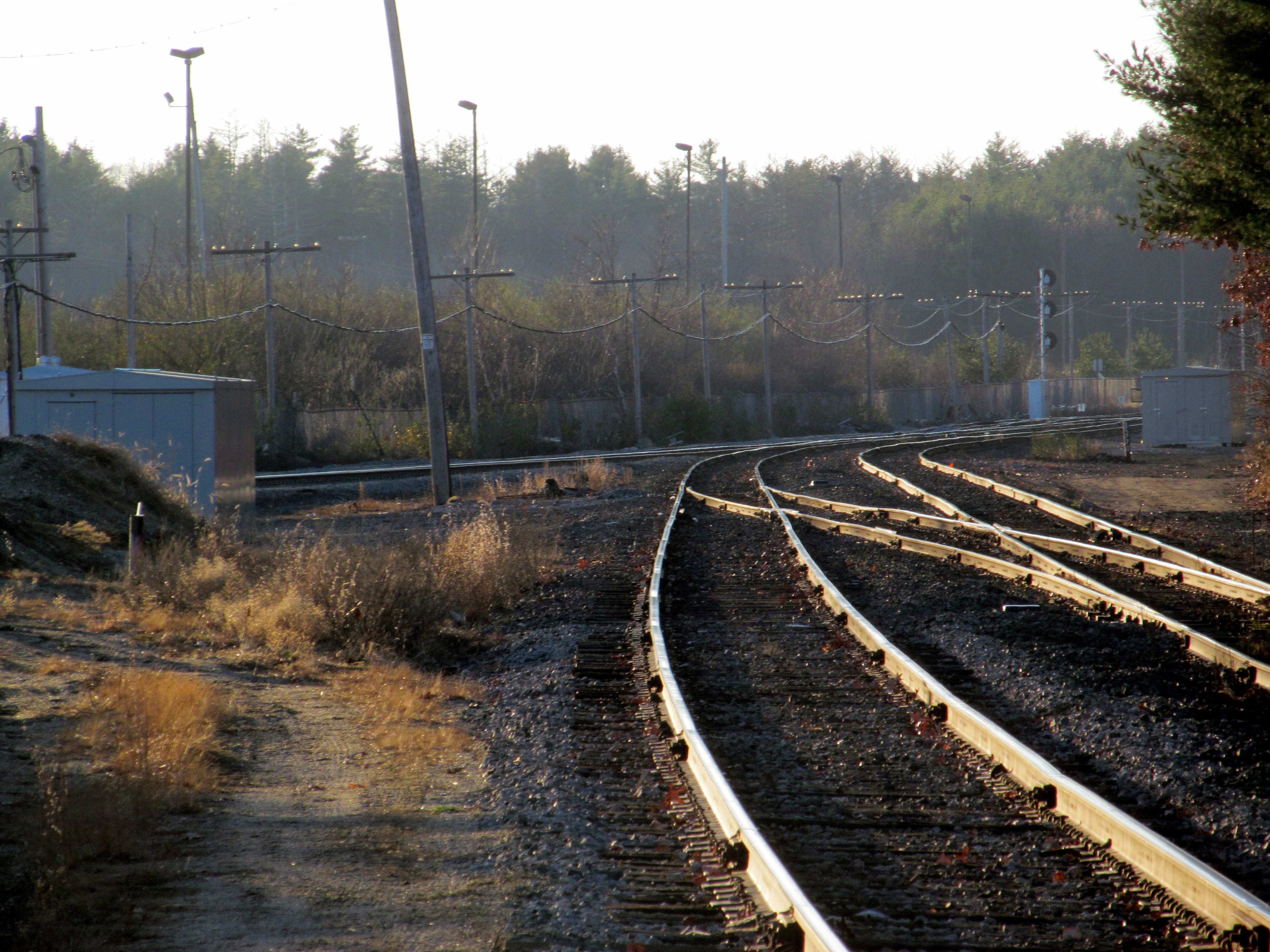 The former site of Willows station, located where the Stony Brook and Fitchburg Railroads met. This view looks west down the Stony Brook tracks.